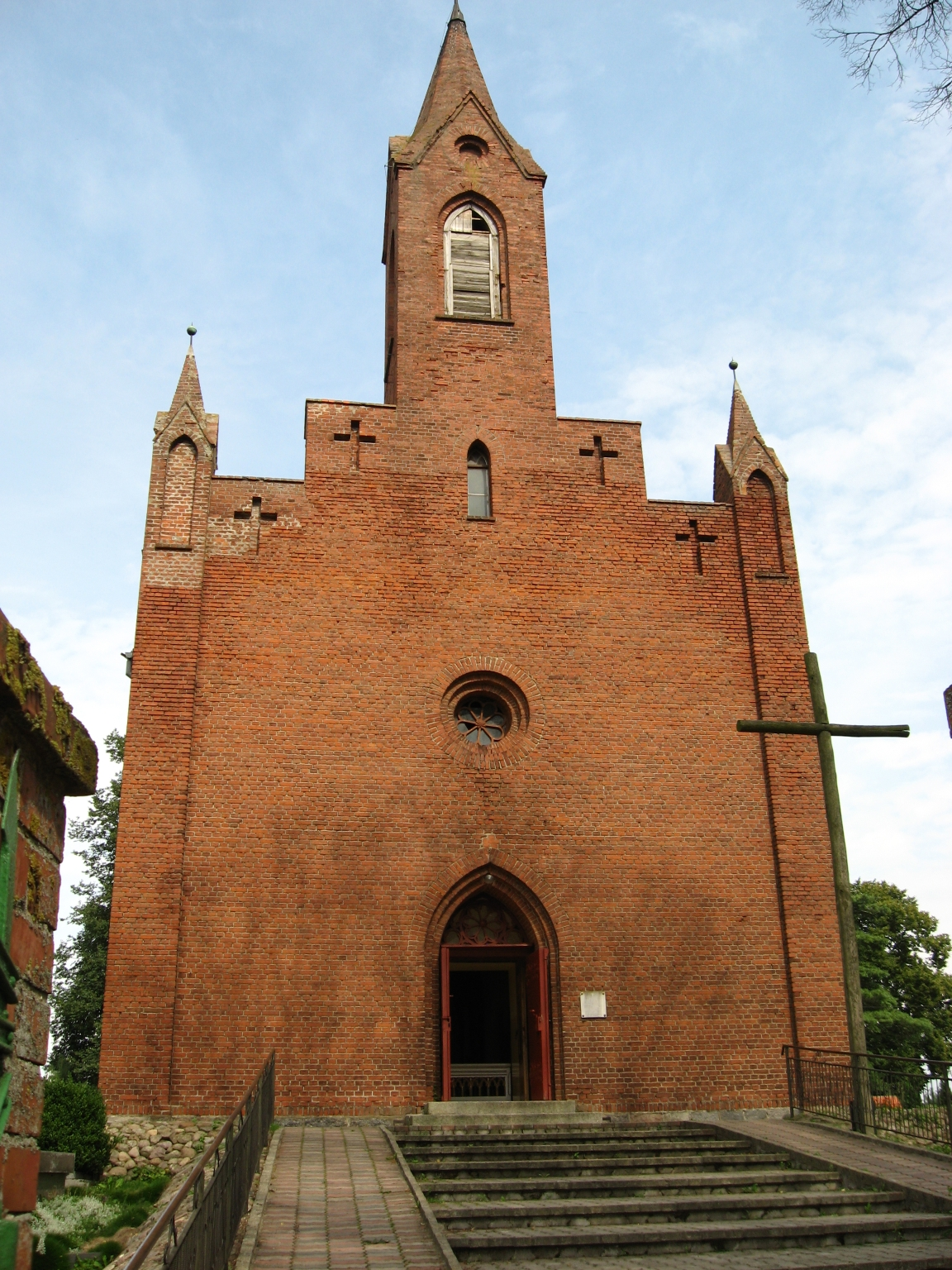 Church in Białuty